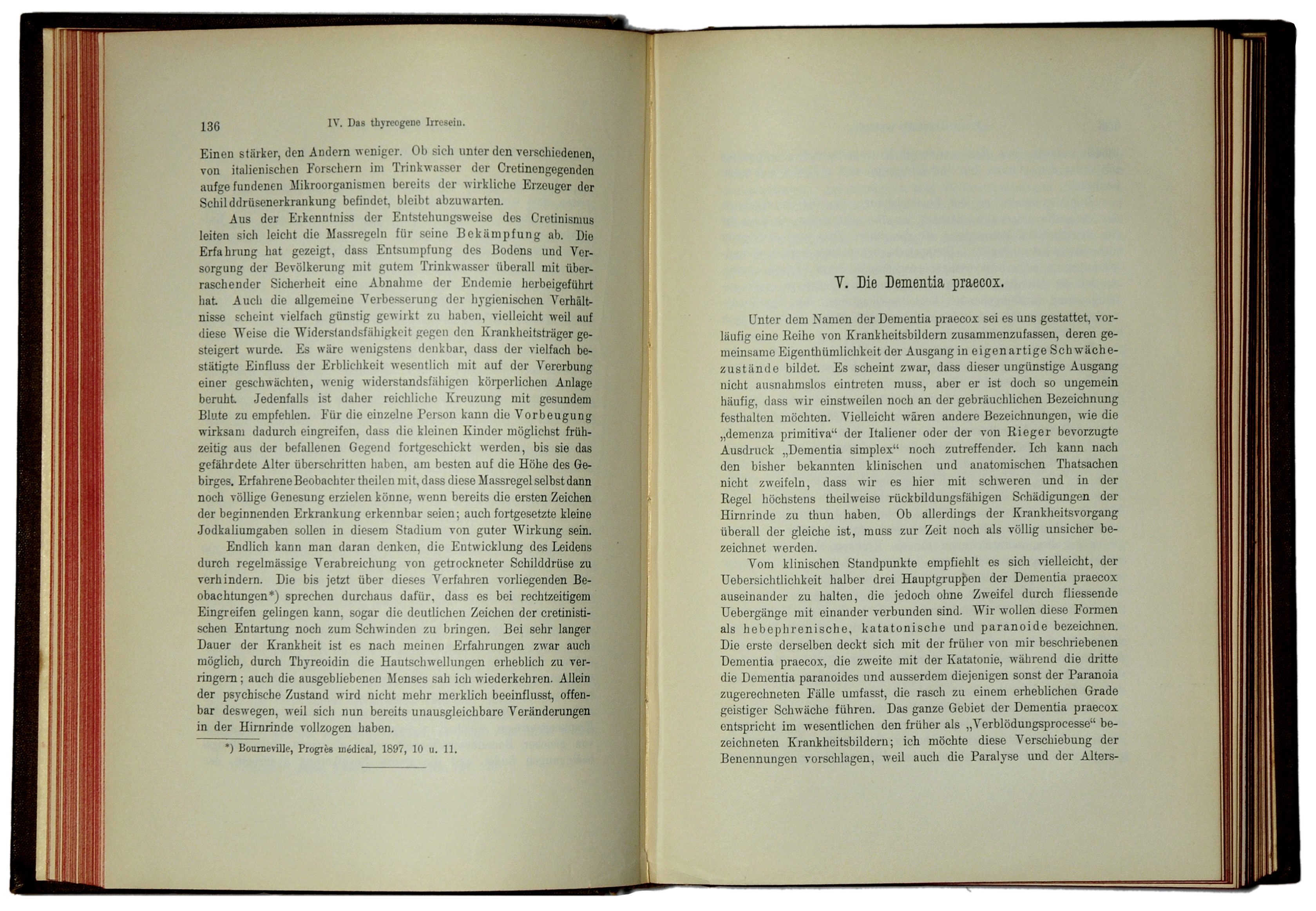 Introduction Dementia praecox (later schizophrenia) in psychiatry, original text 1899 by E. Kraepelin: Psychiatrie (1899).